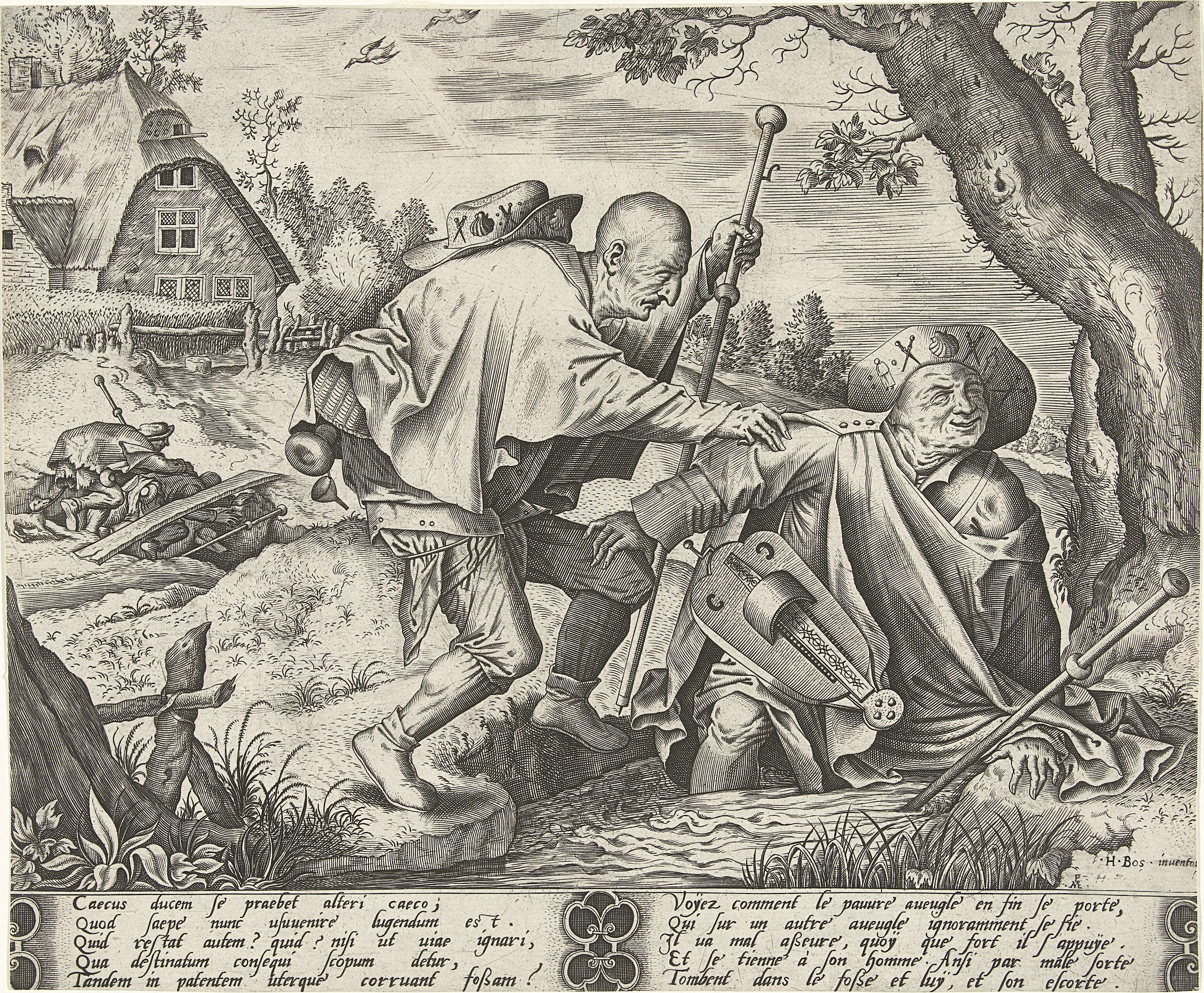 The Blind.